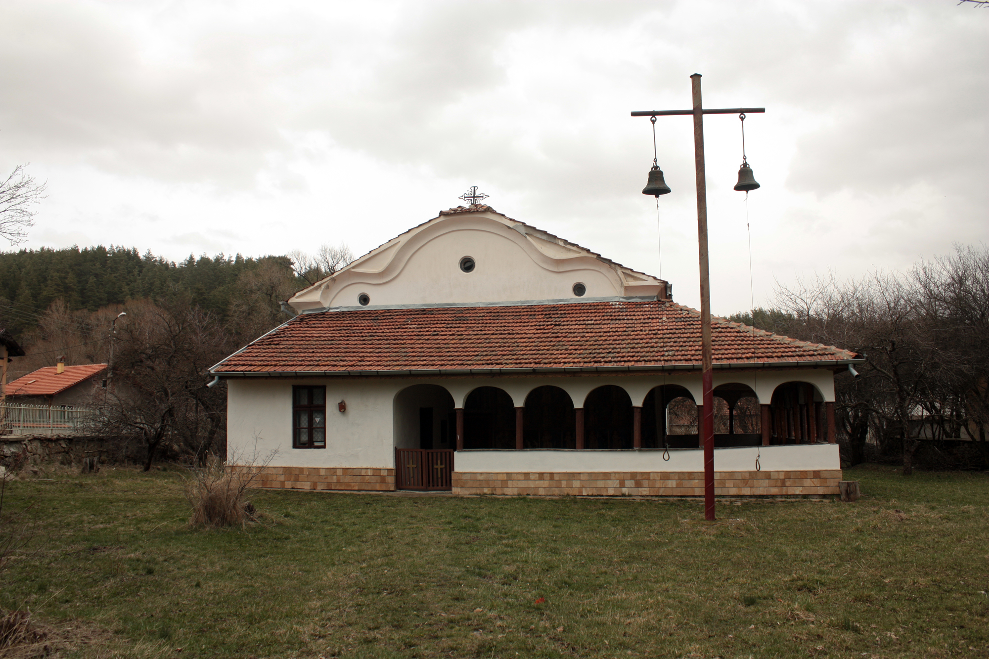 Saint Ilijah church Kovachevtsi, Sofia Province